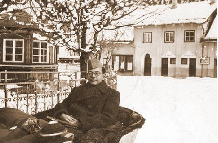 Indian nationalist Subhas Chandra Bose convalescing in Bad Gastein, Austria after surgery, 1933.